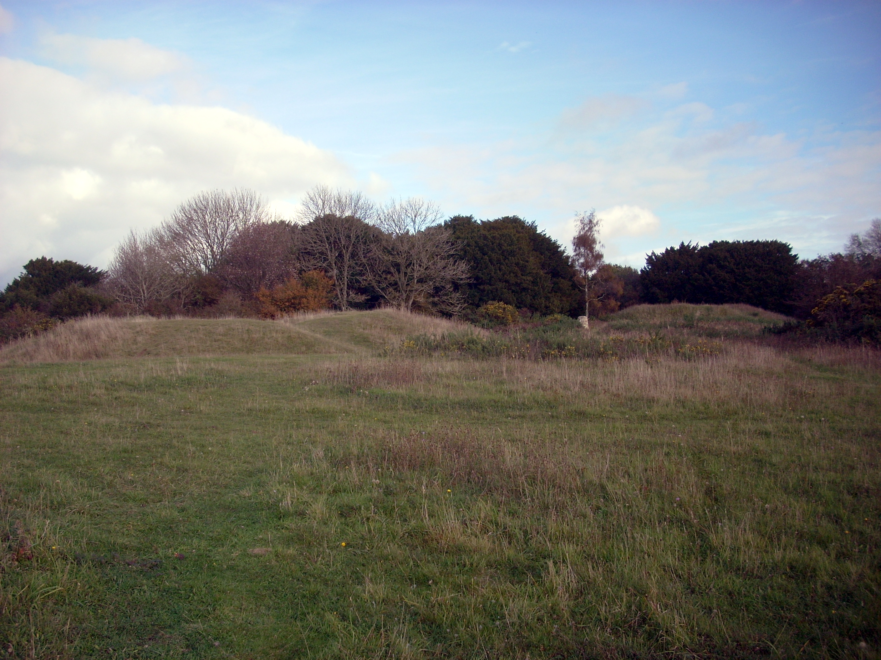 The two bowl barrows of the Devil's Humps, these are the northeasternmost two, labelled as Barrows C and D by archaeologists.